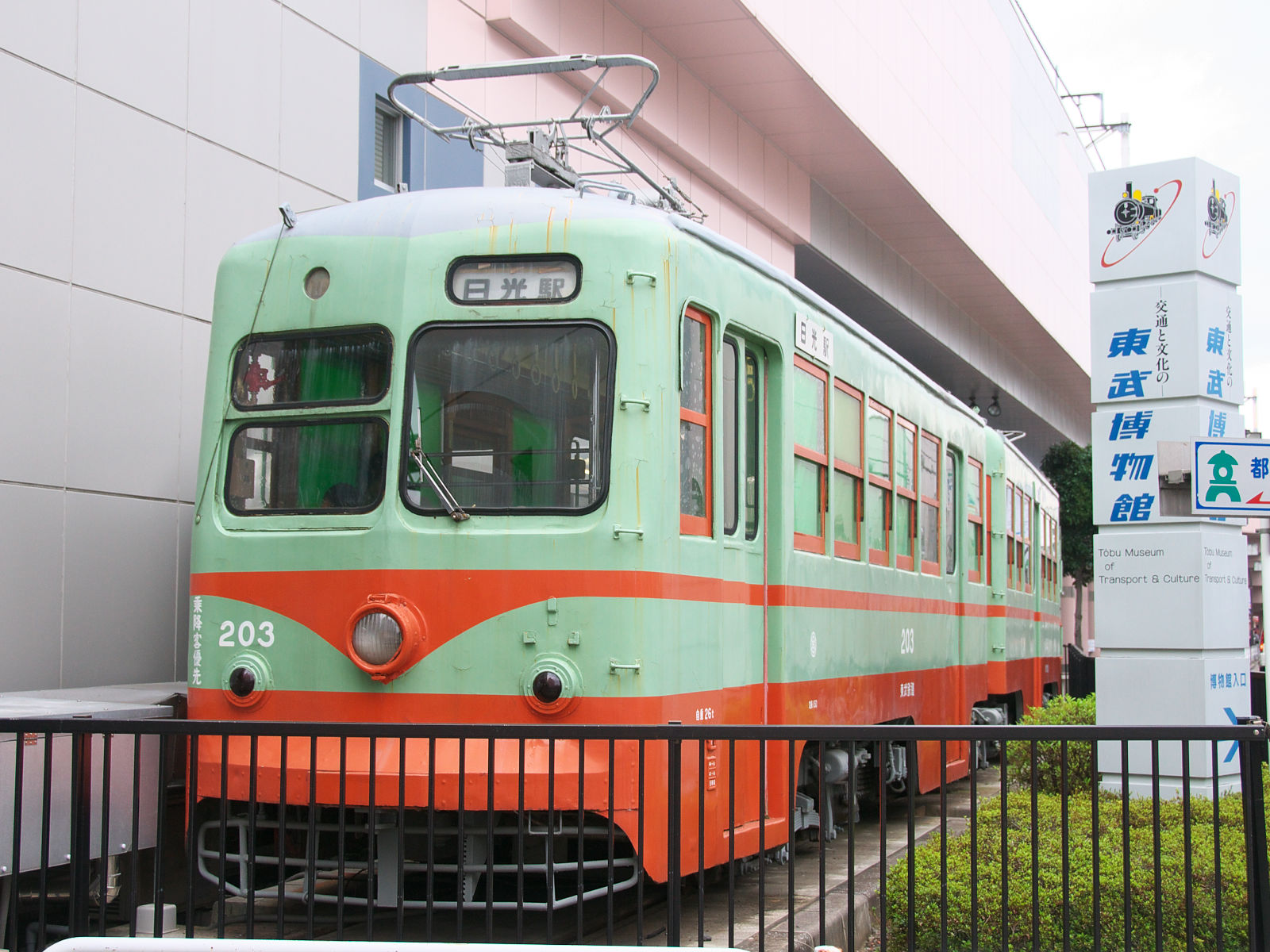 Tobu Railway Nikko Tramway 200 series car No. 203 at the Tobu Museum